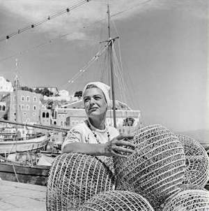 Melina Merkouri